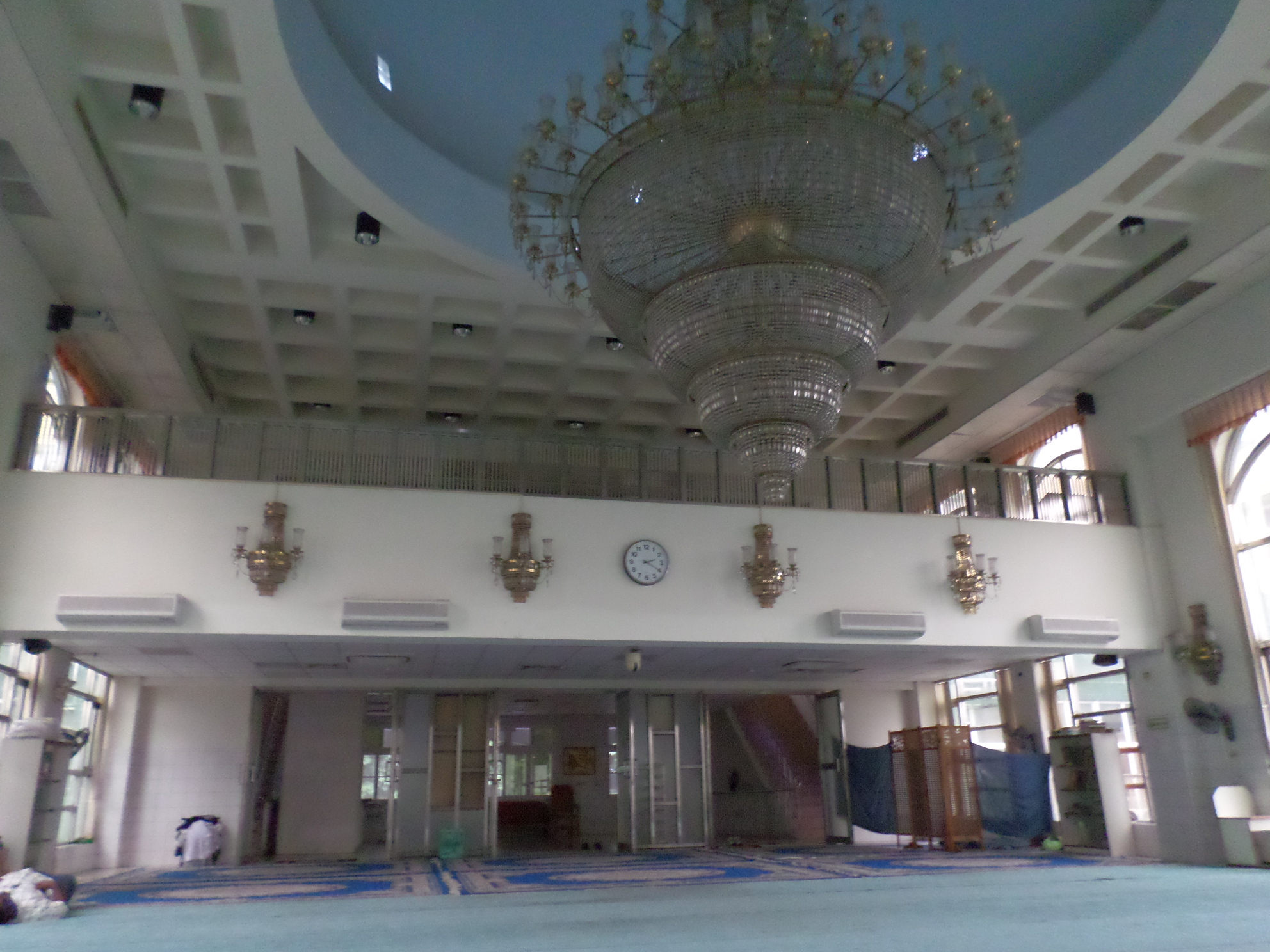 Kaohsiung Mosque, Lingya District, Kaohsiung City, Taiwan